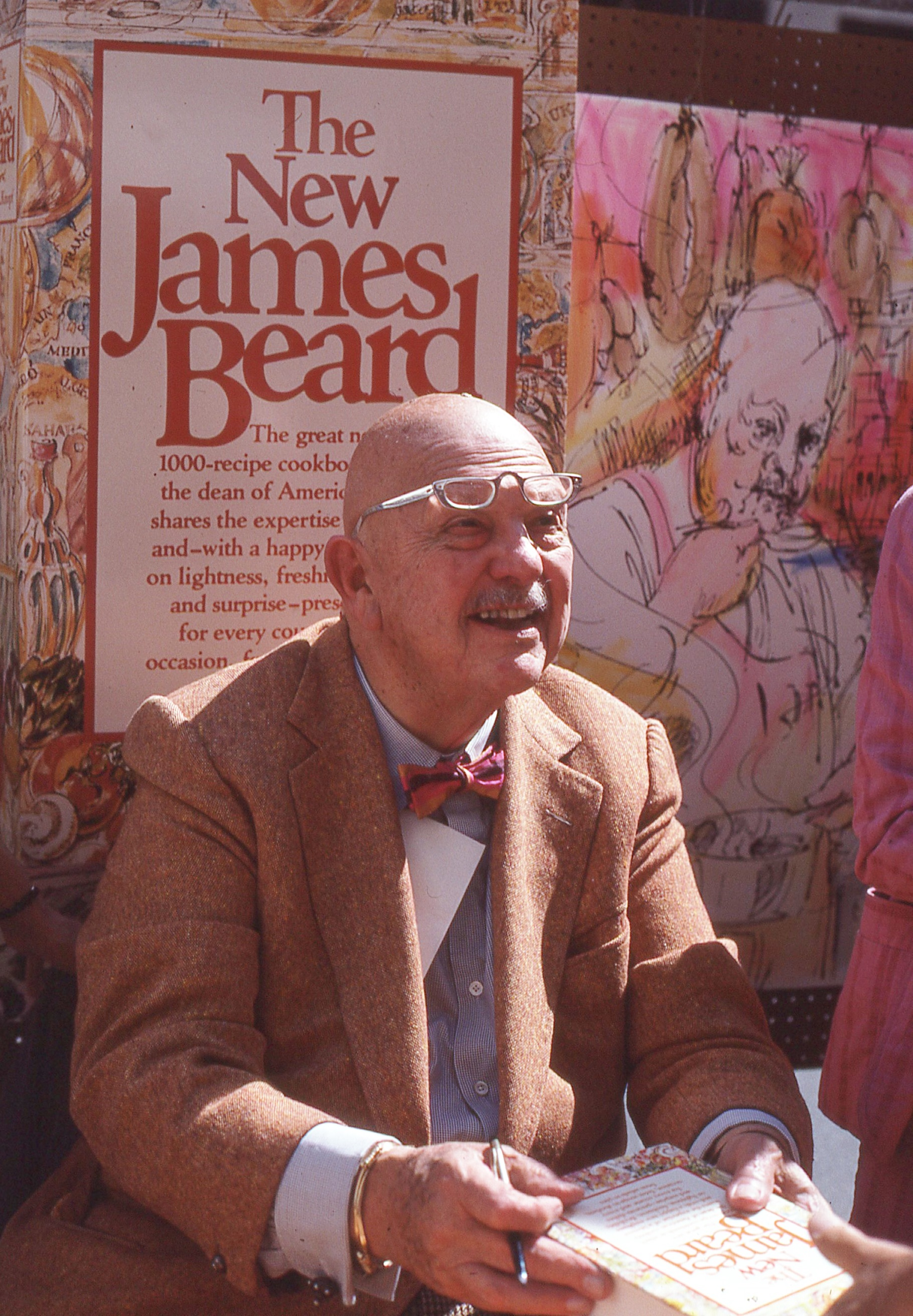 James Andrew Beard